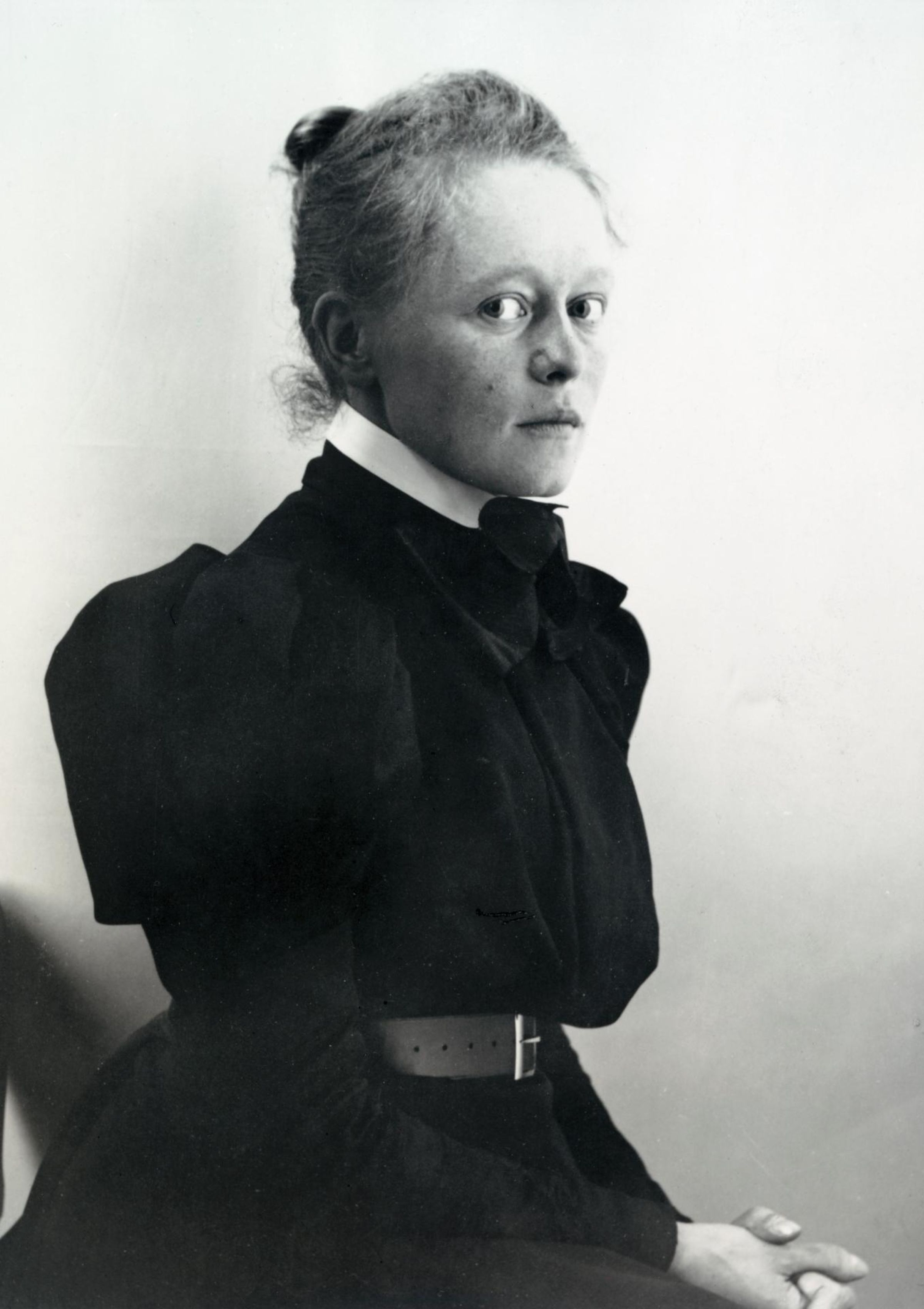 Photograph of the Finnish painter Helene Schjerfbeck.